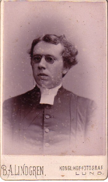 Portrait of swedish bishop and professor Otto Ahnfelt in his younger days (1854-1910).